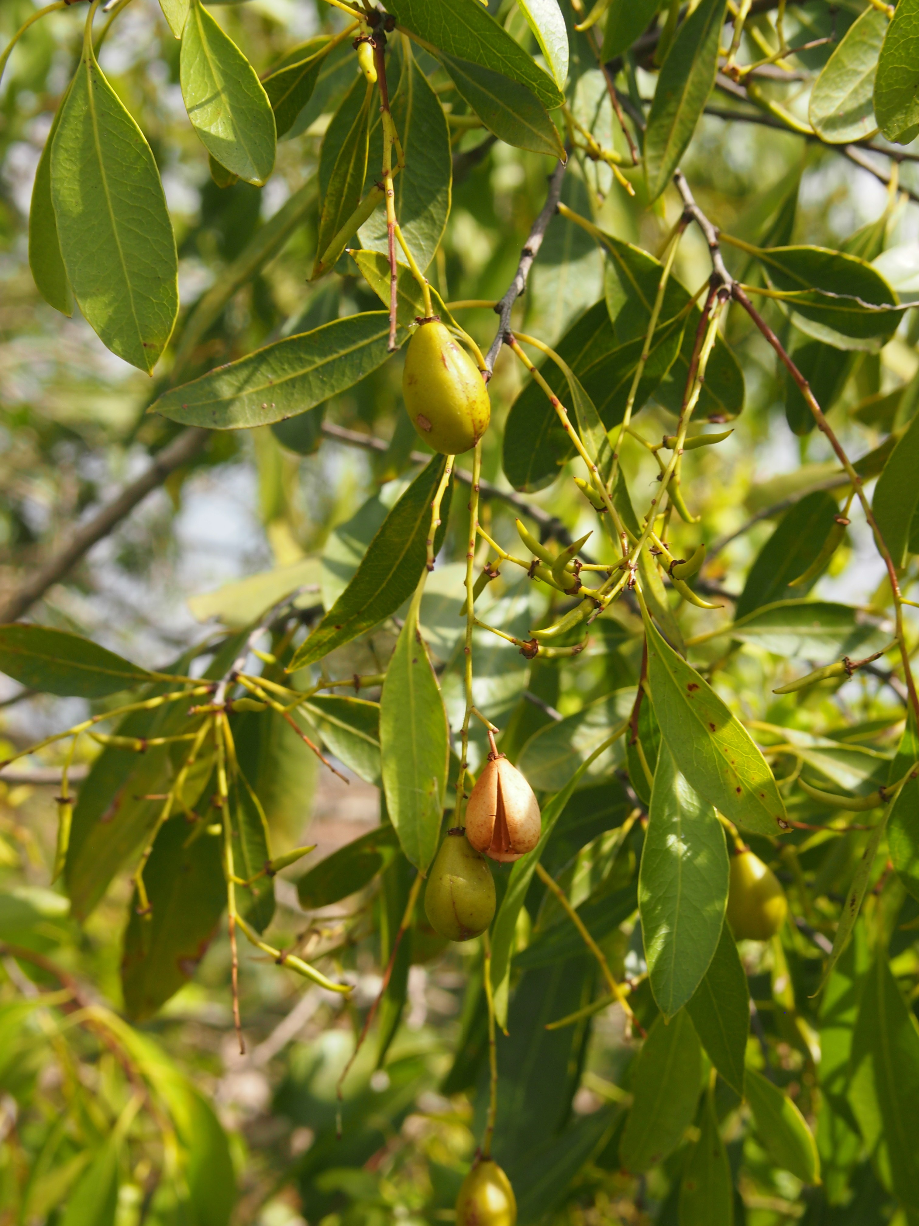 Denhamia oleaster foliage and fruit